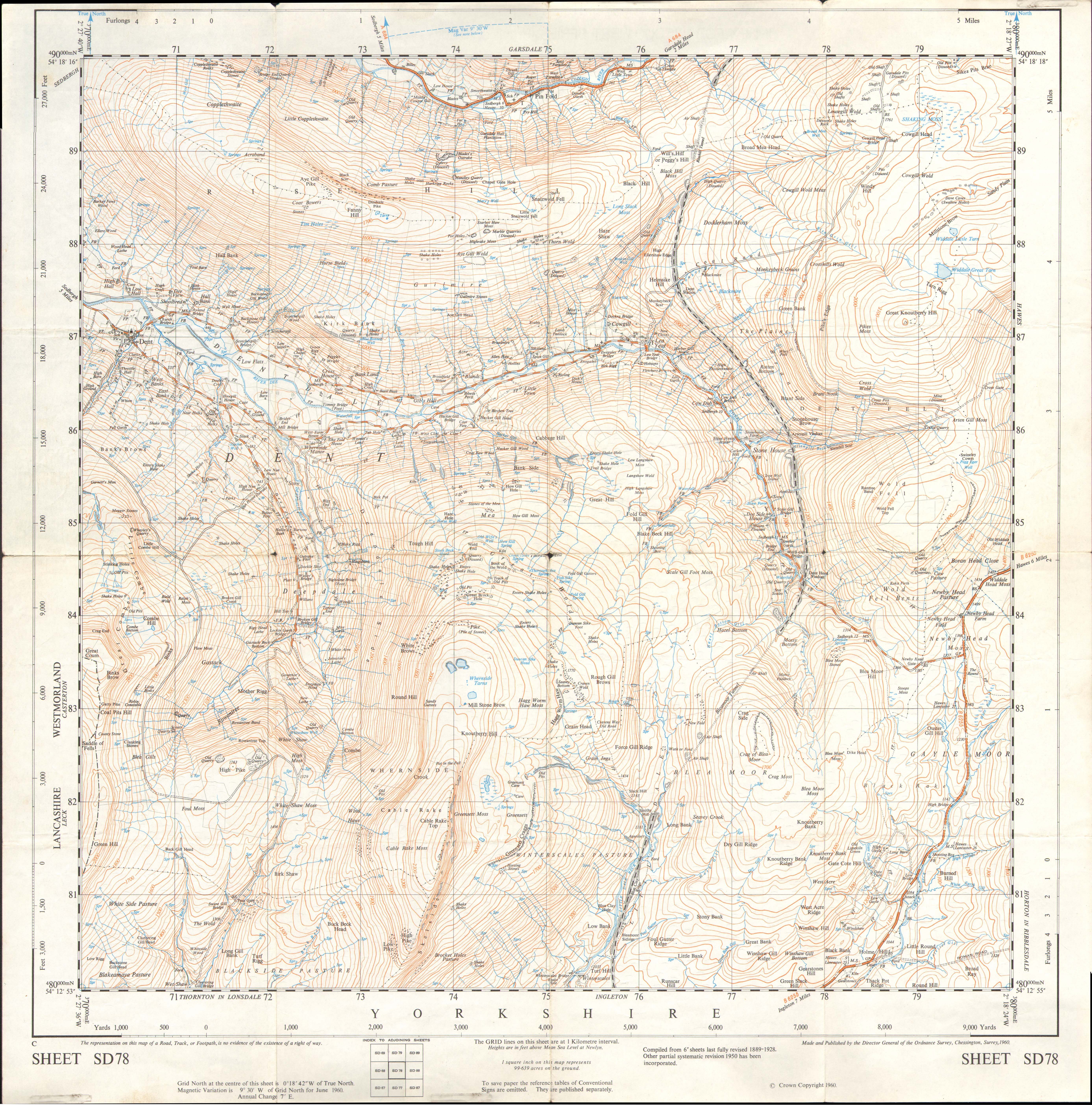 OS map covering Dent (Yorkshire, UK) and surrounding area at a scale of 1:25,000